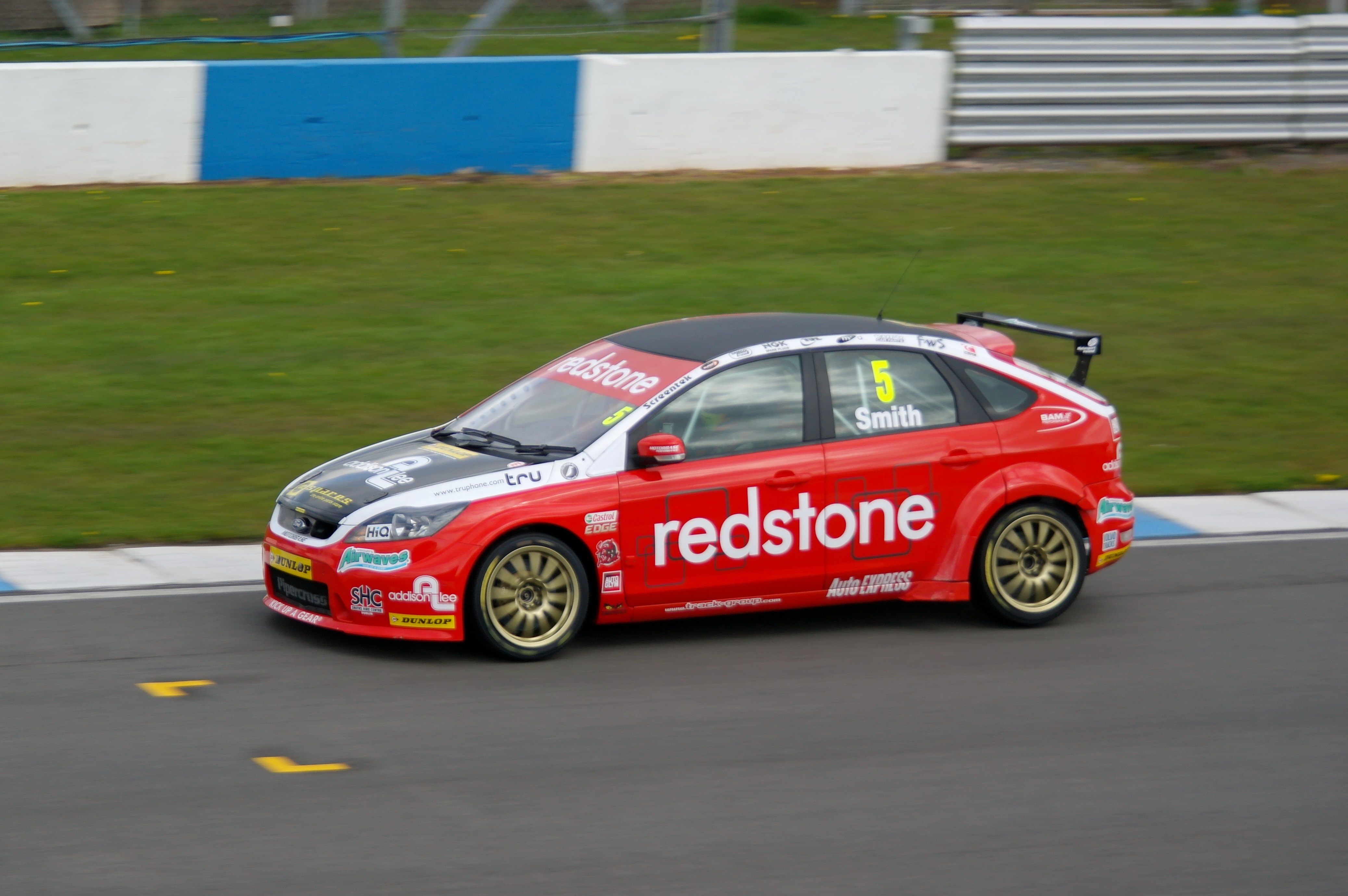 Aron Smith driving for Redstone Racing during practice at Donington Park, 2012 British Touring Car Championship.